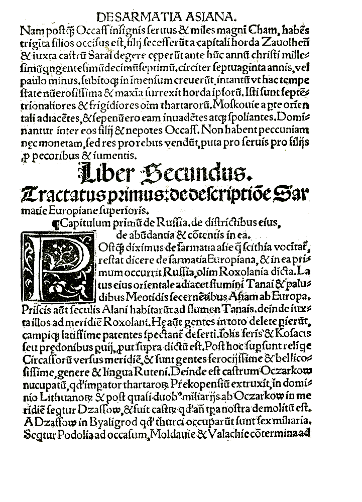 Begining of the Second Book of "Treatise on the Two Sarmatias" (Tractatus de duabus Sarmatiis), 1517